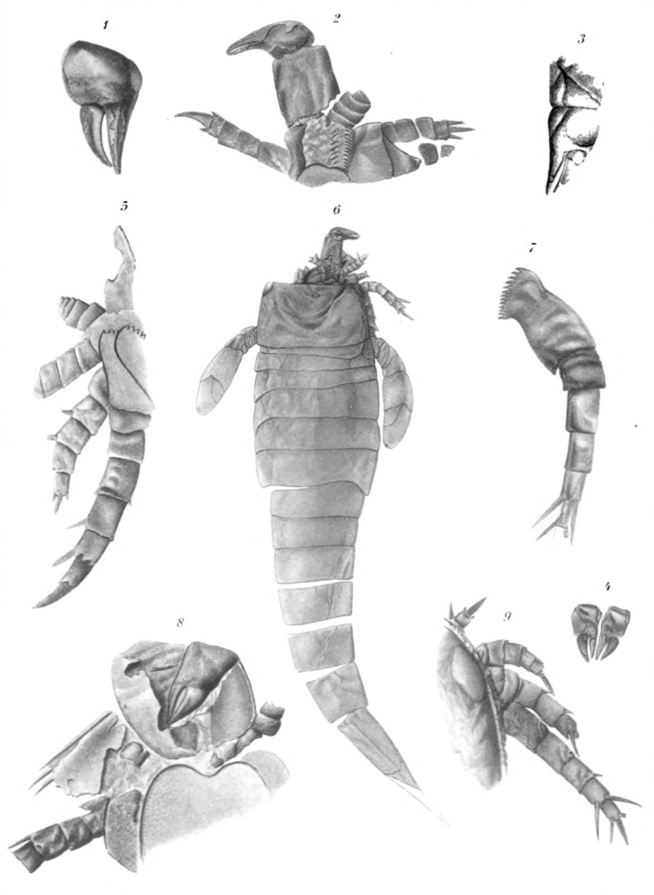 Hughmilleria socialis Sarle Page 335 See plates 59–61, 62–64 1 Pincers of a chelicera. × 3½ 2 Extended chelicera and first two pairs of walking legs. × 3 3 Fragment of first joint and the pincers of a chelicera. × 4 4 Pair of chelicerae, presumably in normal position. × 3 5 The two posterior walking legs in complete preservation. × 3 6 Dorsal view of a large specimen. The anterior portion of the carapace is broken away thereby exposing one extended chelicera and the walking legs of the right side. Both swimming legs are also shown. Natural size 7 Complete walking leg, showing coxal joint and articulation of second joint. × 3½ 8 Complete chelicera in natural position. × 3½ 9 Dorsal view of right side of cephalothorax with the four walking legs in position. × 3 Horizon and locality. Pittsford shale. Pittsford, Monroe co., N. Y. The originals of all figures are in the State Museum. All specimens are cotypes The Eurypterida of New York. Volume 2. New York State Museum Memoir 14, plate 61